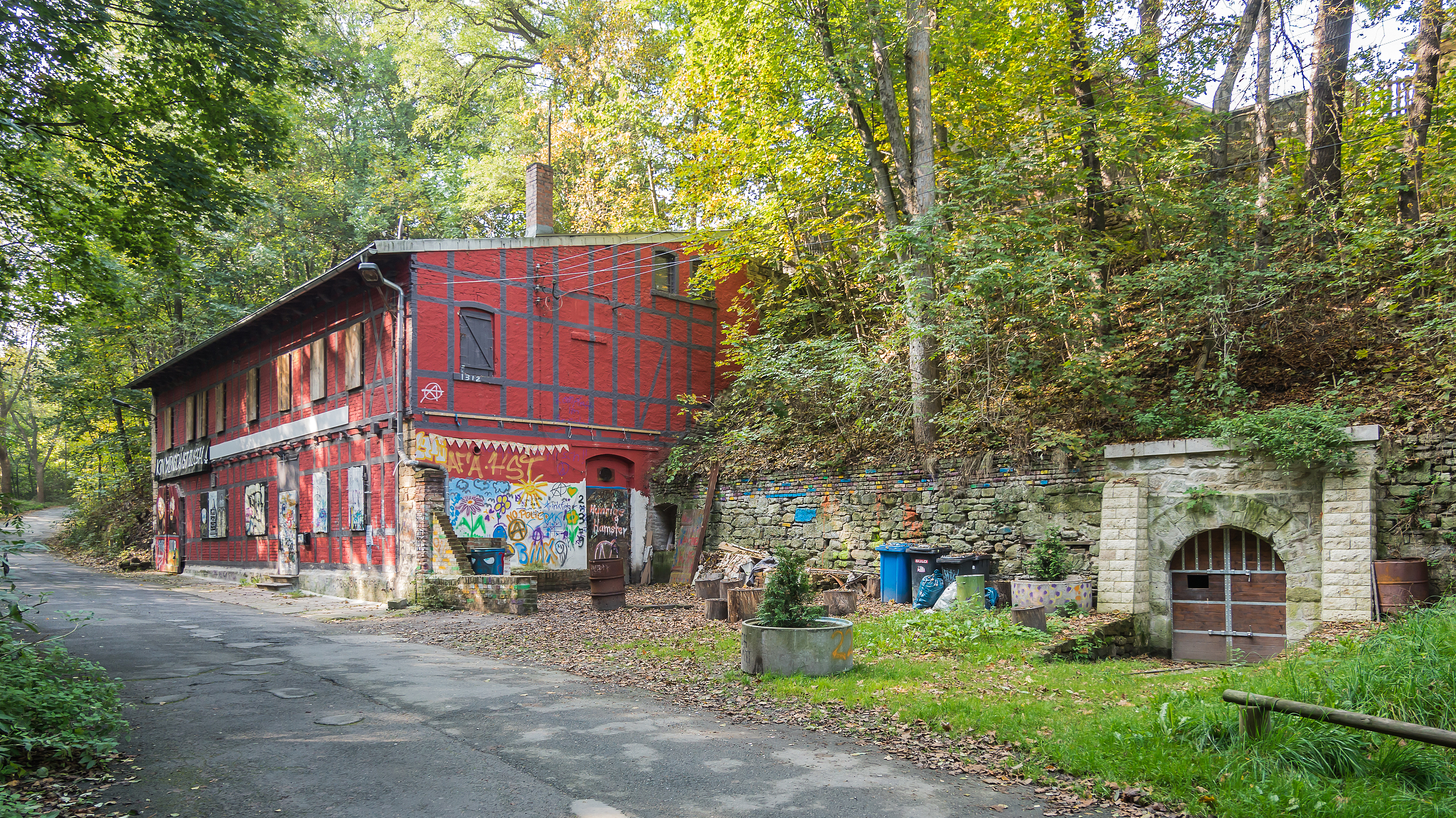 Saalfeld Schloßberg Schlosshang Bestandteil Sachgesamtheit "Schloss und Park Saalfeld-Saale"